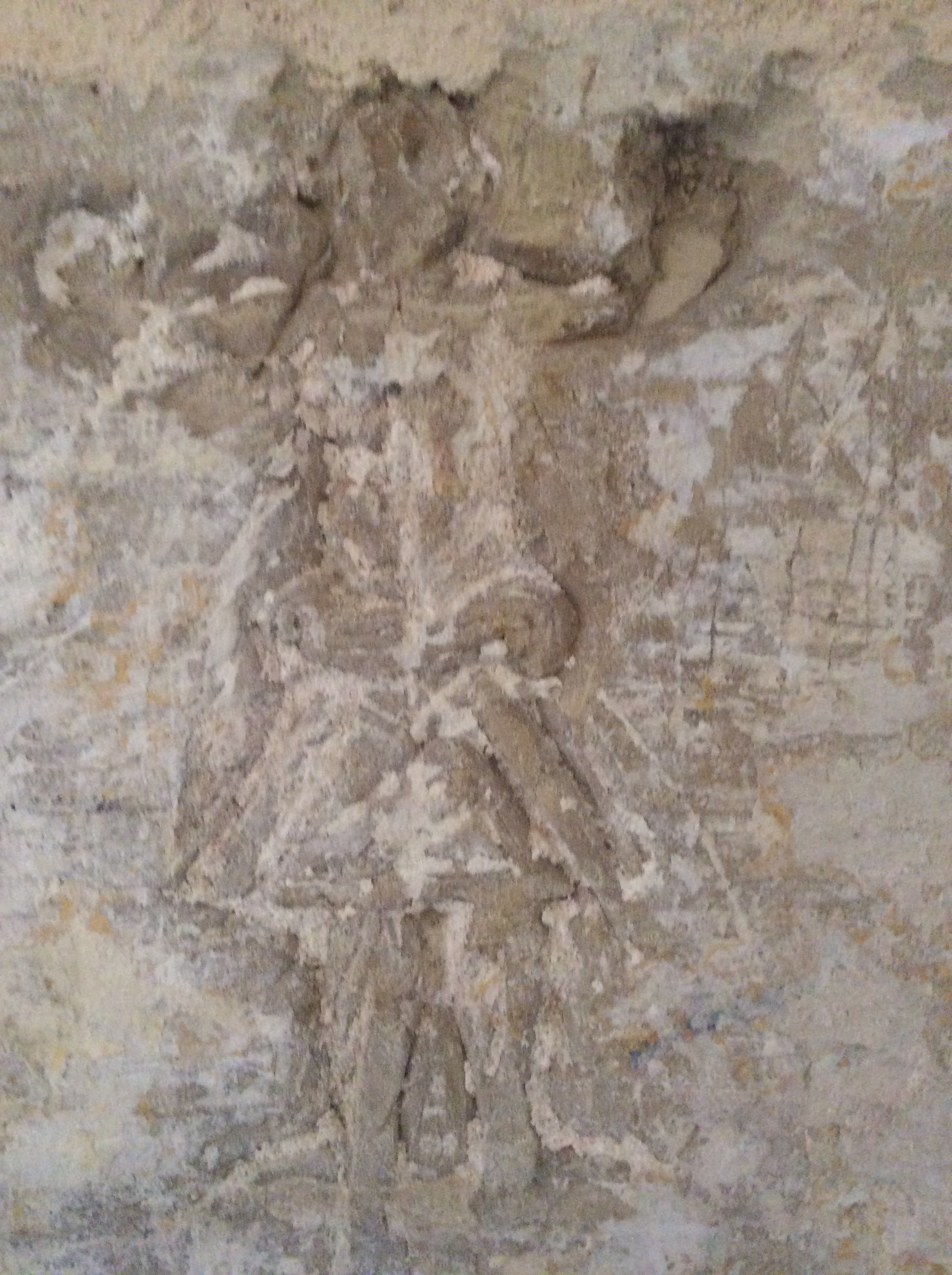 Historical graffiti in one of the prison cells of the Castellania in Valletta, Malta